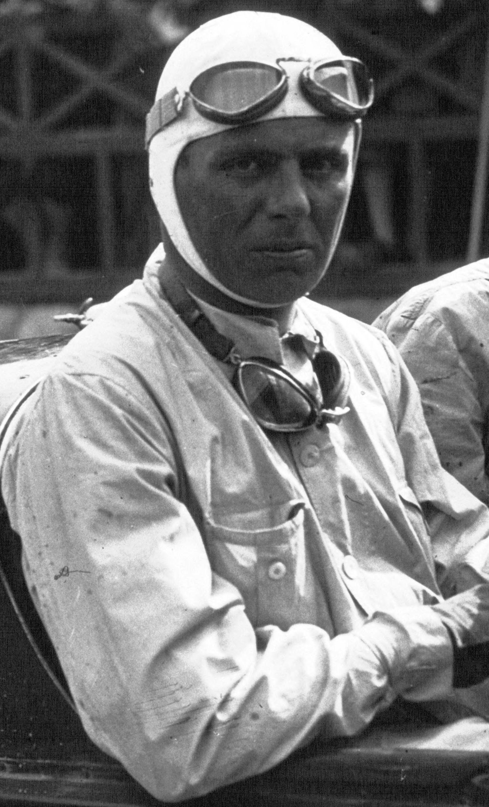 Achille Varzi in his Alfa Romeo at the 1930 Targa Florio.